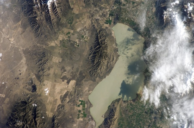 Satellite view of Utah Lake, Lake Mountains, and southern part of Oquirrh Mountains.